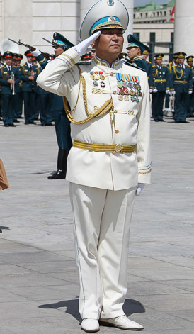 The closing ceremony of the "Trumpet of Peace 2016" International Festival.